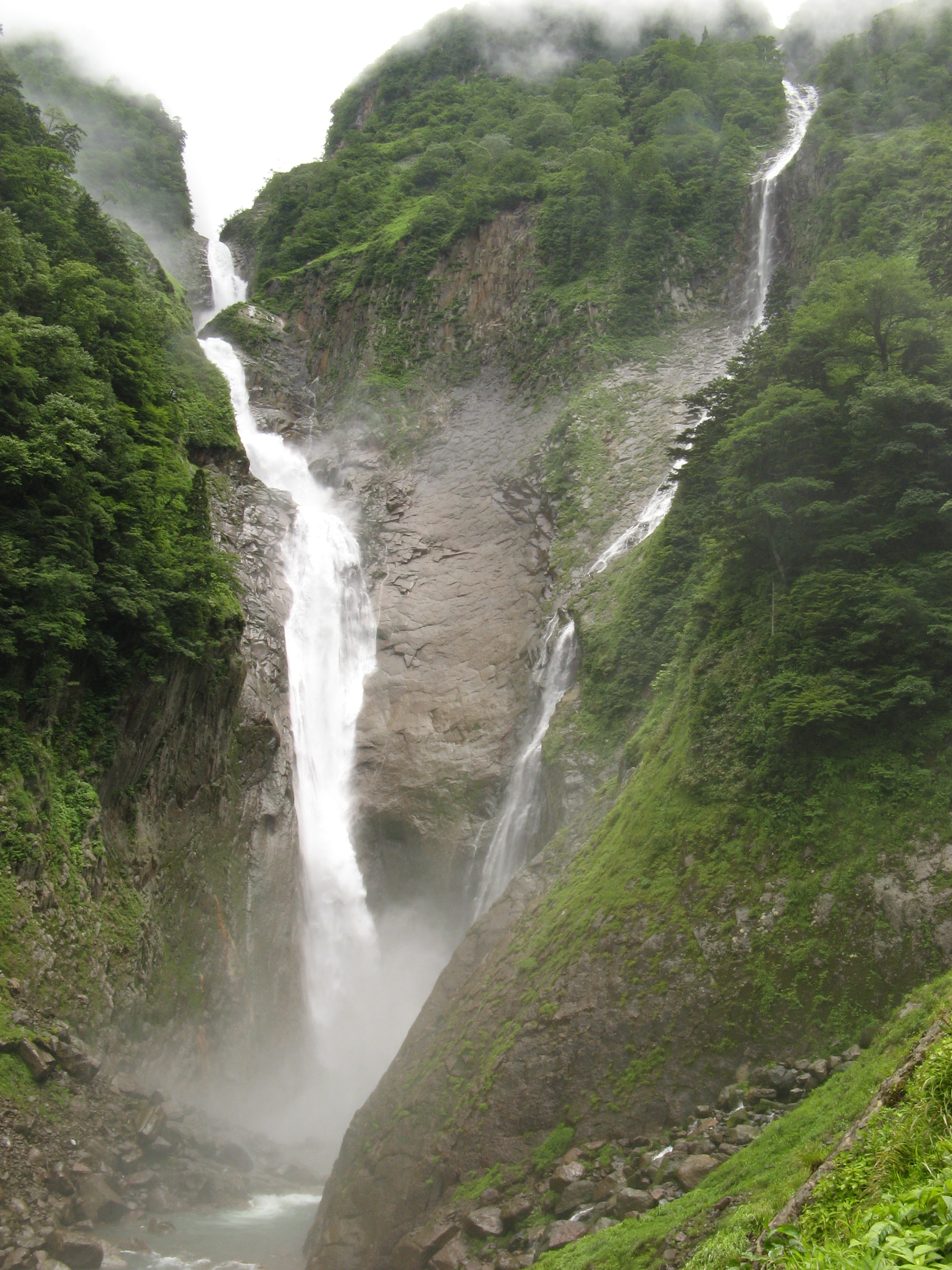 称名滝(左側)とハンノキ滝(右側)。富山県立山町。 / The Shōmyō-daki (Shōmyō falls. Left side) and the Hannoki-daki (Hannoki Falls. Right side). Tateyama